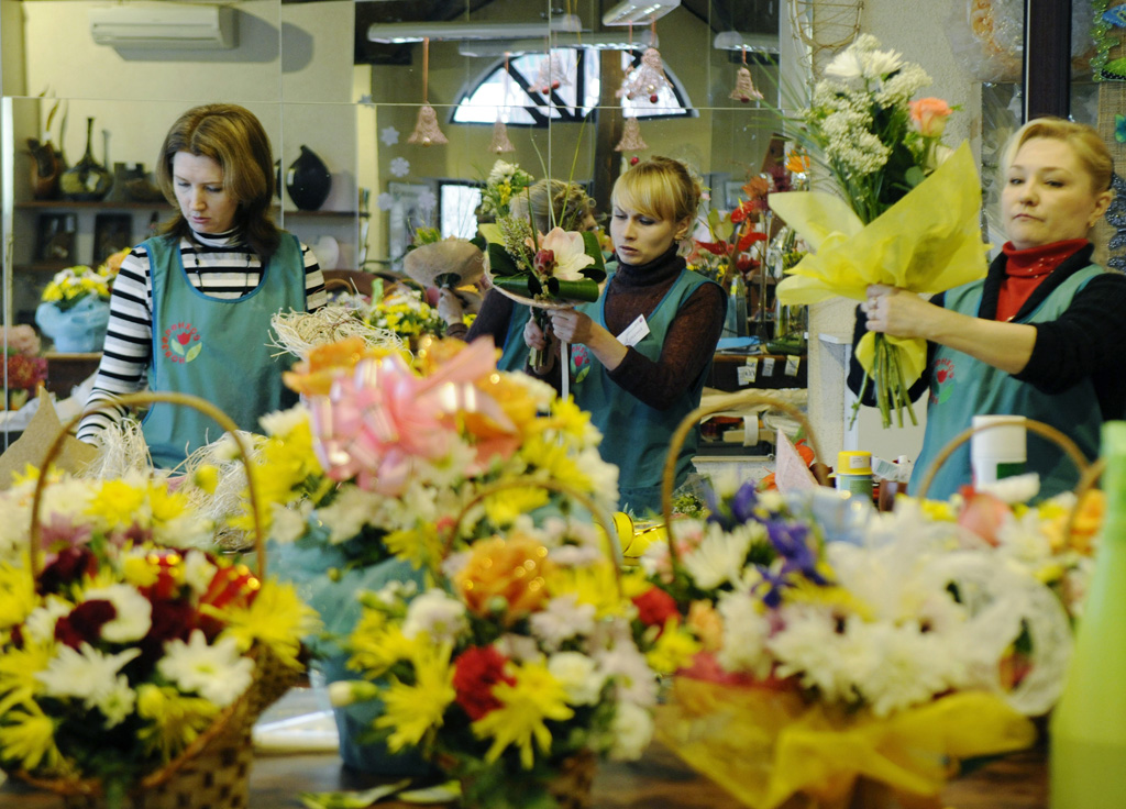 “Flowers on sale before Women's Day”. Bouquets arranged and flowers sold at a florist's in the city of Veliki Novgorod on the eve of the International Women's Day